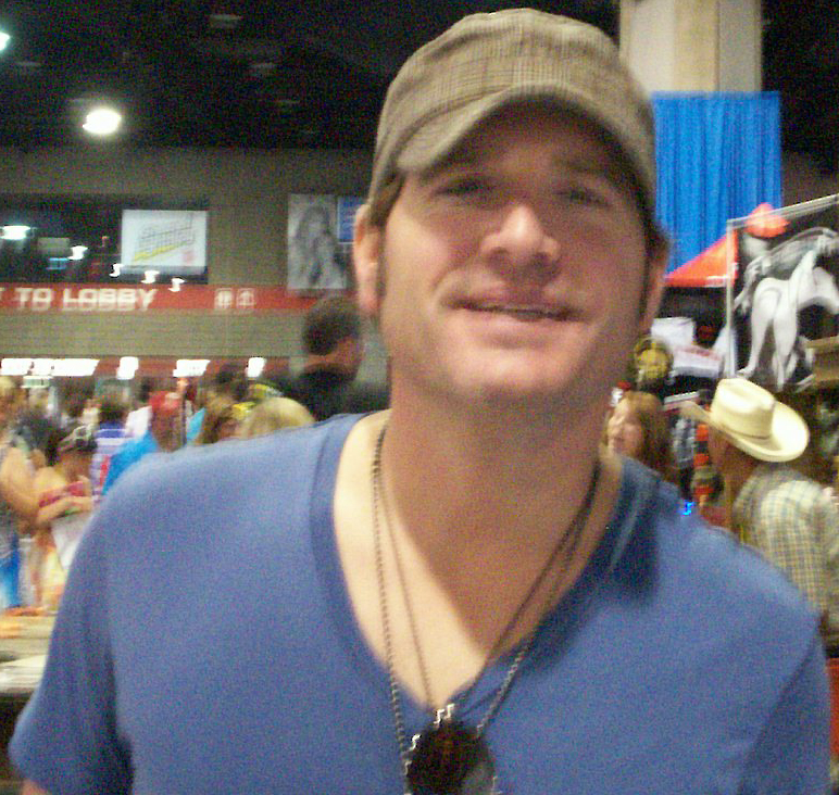 Jerrod Niemann at the CMA Music Fest.